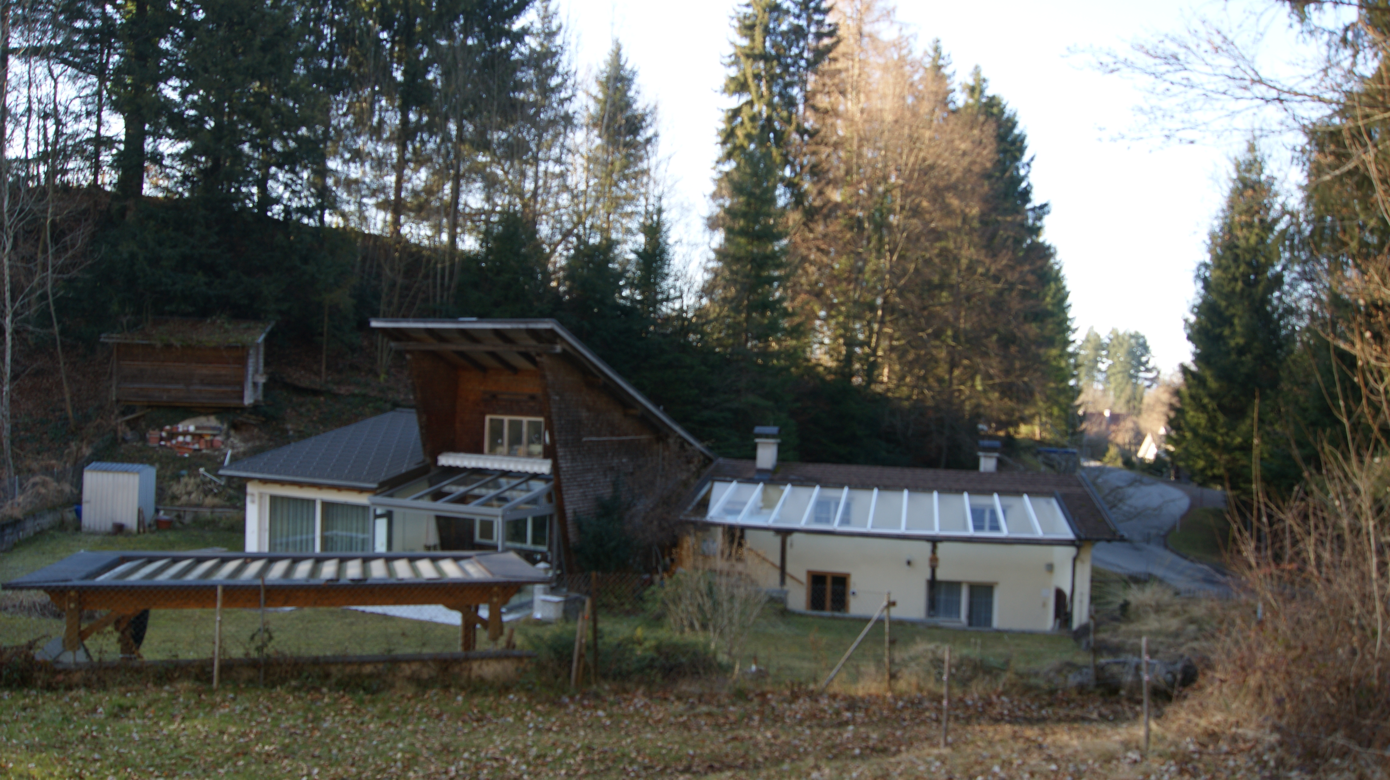 Bottom station of the Experimental ropeway Batschuns (municipality of Zwischenwasser) by Karl PETER (ca. 683 - 825 m.ü.A.), existed from 1947 to 1962/63. Now a home.